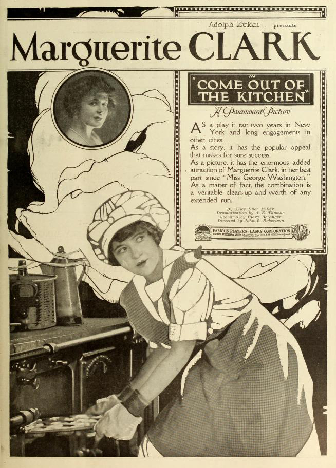 Advertisement in Moving Picture World, May 1919 for the film Come Out of the Kitchen (1919).